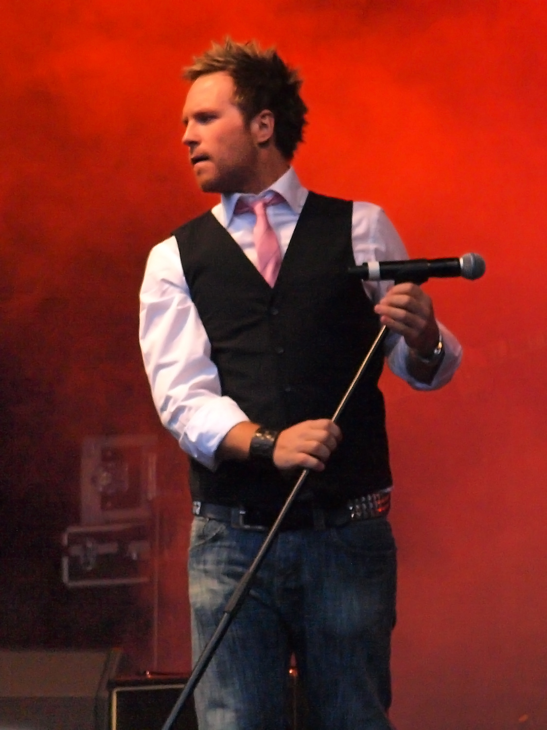 Swedish singer Anders Fernette, previously known as Anders Johansson, performing in Falun, Sweden.